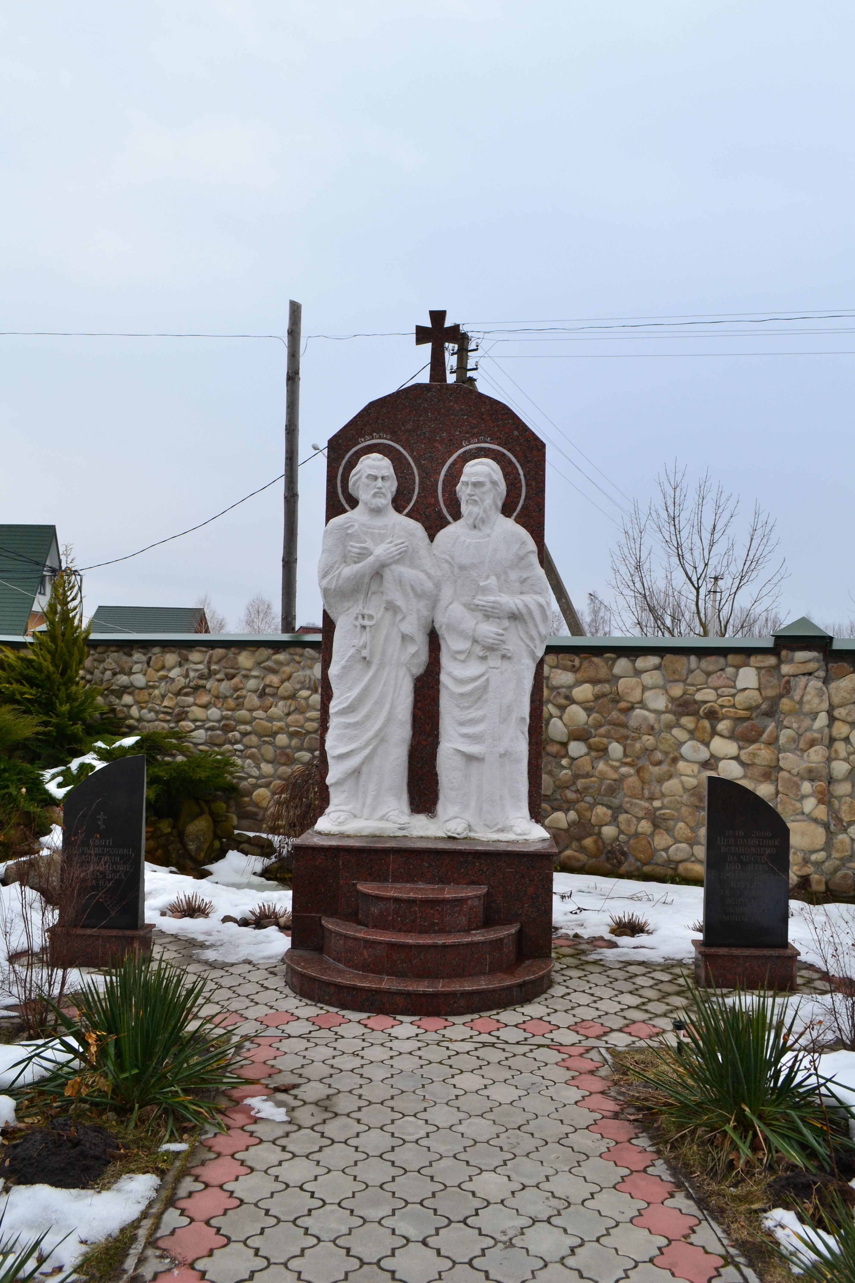 Stella of the Apostles in Peter and Paul Monastery in Svitiaz